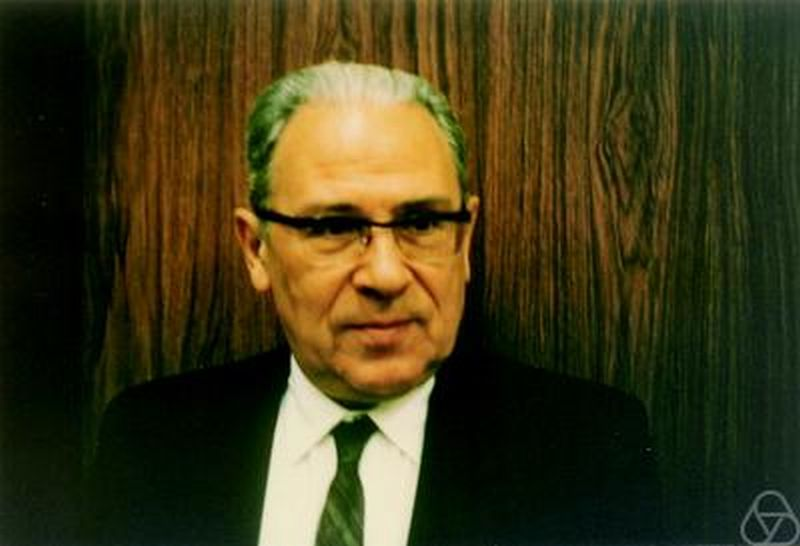 Eberhard Hopf, Columbus/Ohio 1970